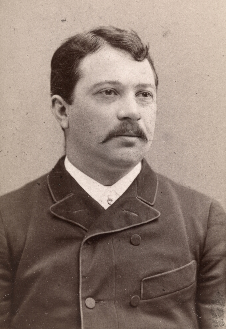 Composer and teacher of music, Gustav Fr. Lange (1887)